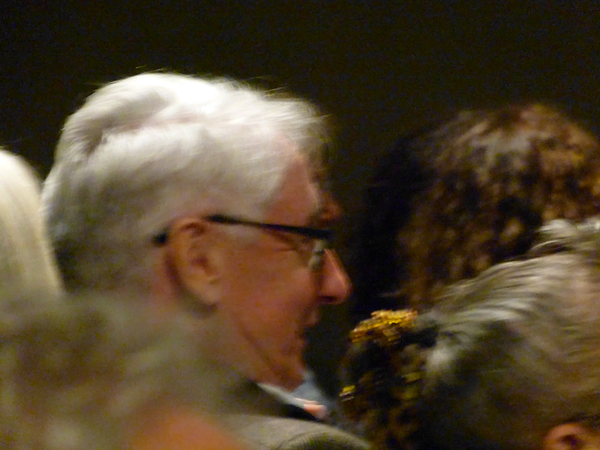 Kevin Volans (comp) in concert „Resonant Flutes - News from Kevon Volans & Co“ with ‚The Flute Project’ in the concert event „Cologne Music Night“ at Kunst-Station Sankt Peter, Cologne, Germany, September 19th, 2015